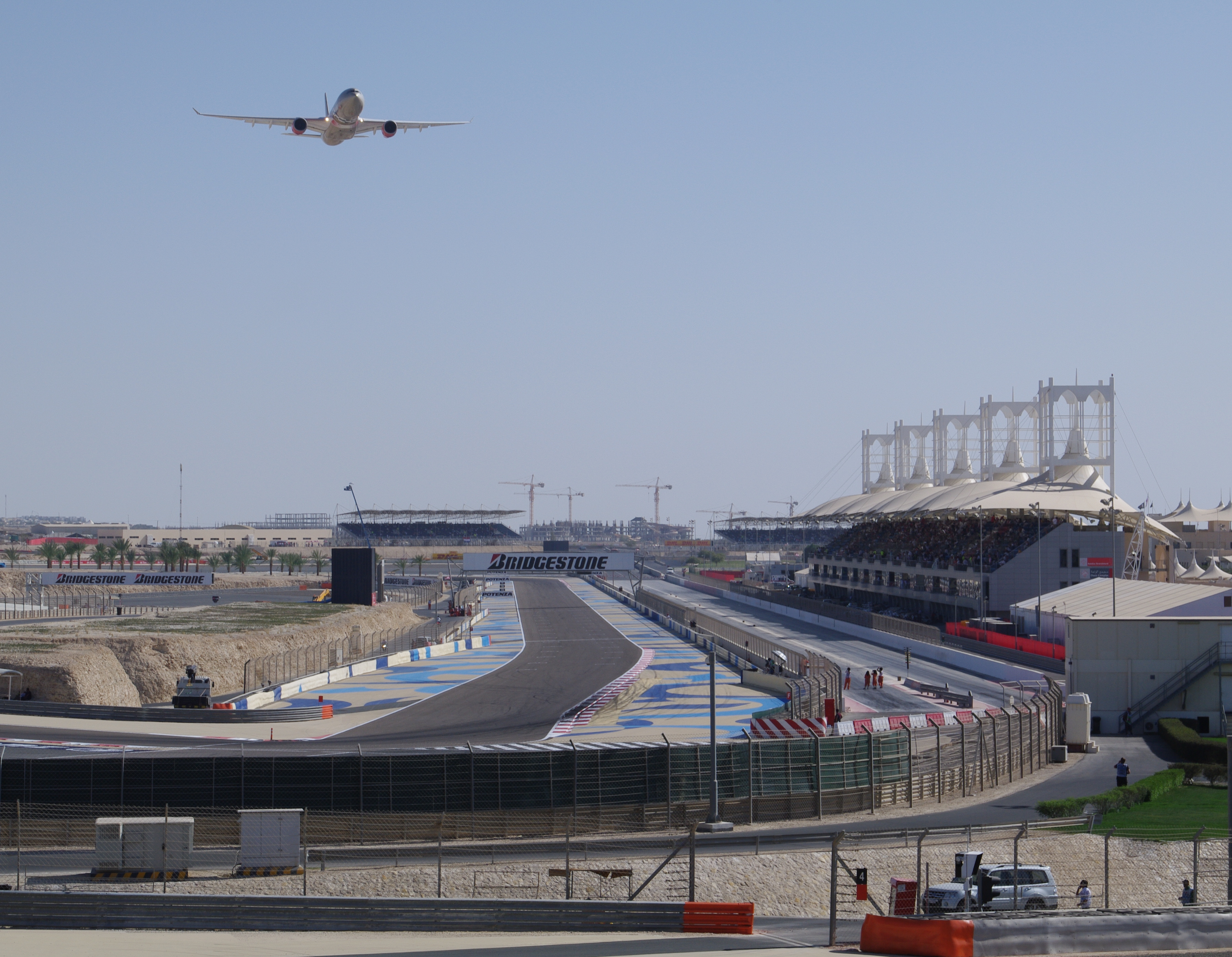 The Back Straight at Bahrain